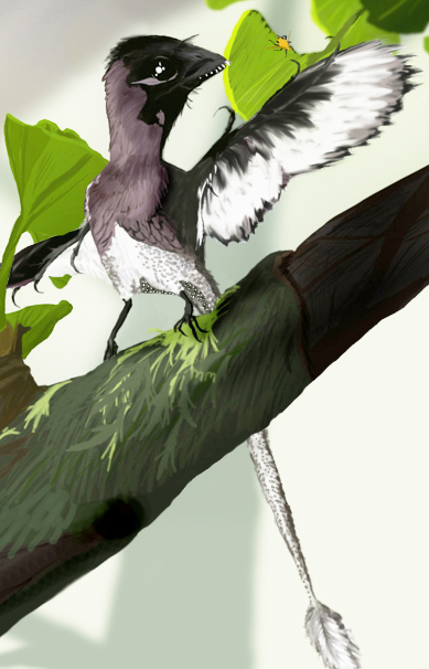 Life restoration of the small dinosaur Scansoriopteryx heilmanni, modified from a larger piece by Matt Martyniuk